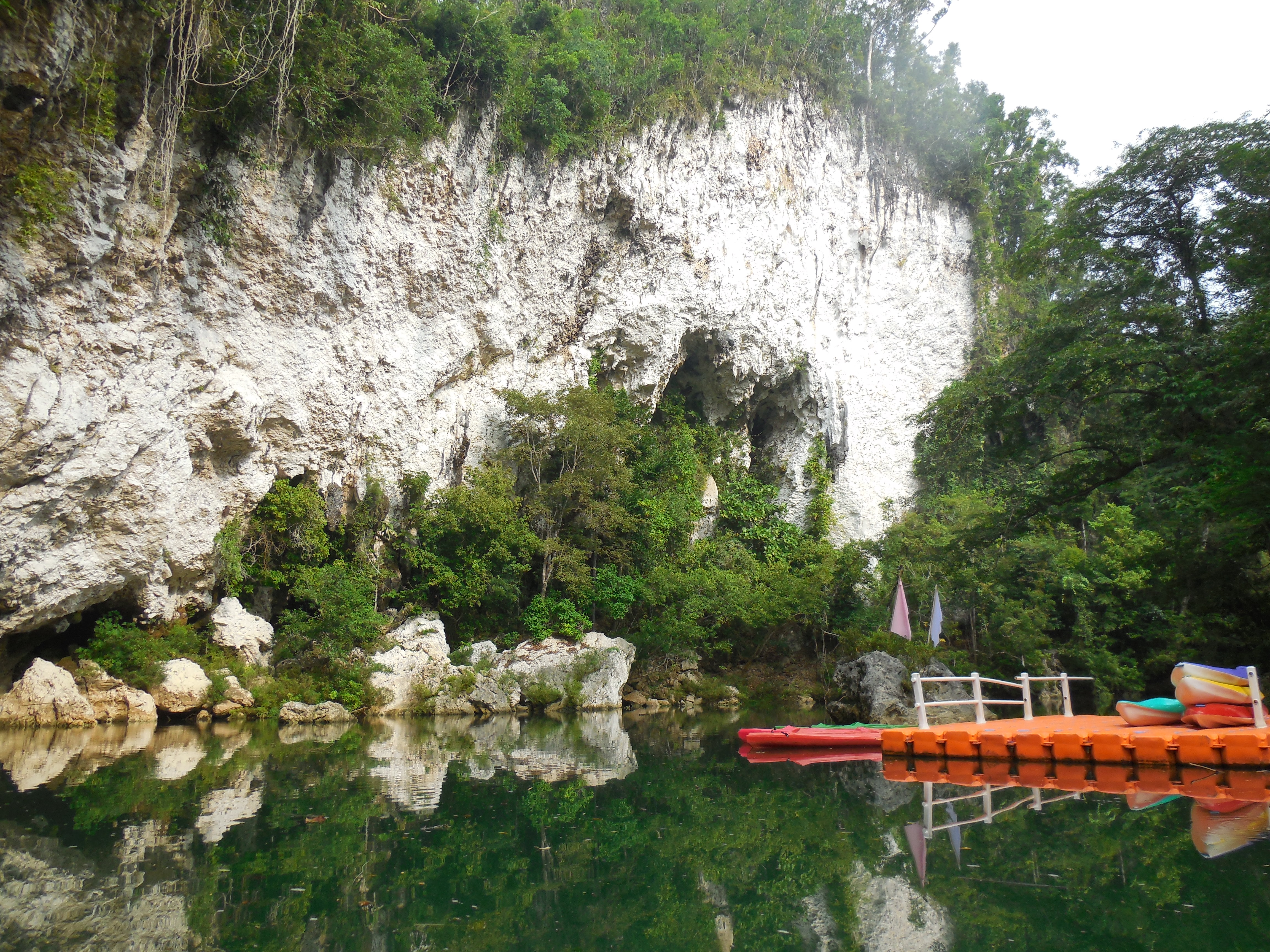 Panhulugan Cliff at Sohoton Natural Bridge National Park, Basey, Samar, which shows the boat quay leading to Sohoton Cave.